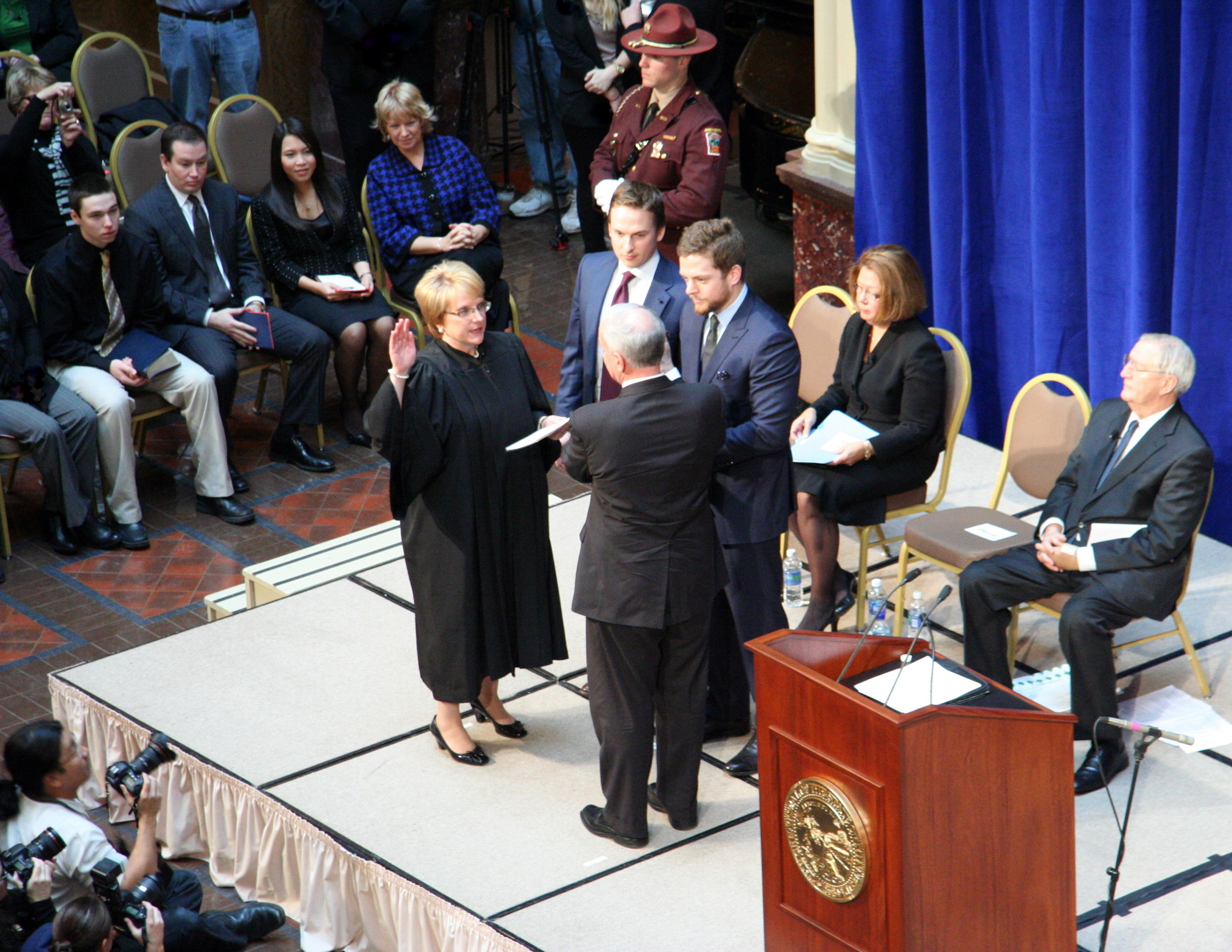 Minnesota Chief Justice Lorie Skjerven Gildea administers the oath of office to Mark Dayton as he becomes Governor, with his two sons holding a Bible. With them on the stage are Walter Mondale and Yvonne Prettner Solon.